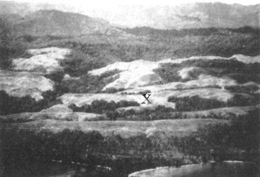 View looking south over Point Cruz, Guadalcanal shows the jumble of sharp-grassed ridges, foothills and mountainous jungle which was Guadalcanal. "X" marks the spot on March 27, 1942 where three companies from "Chesty" Puller's U.S. Marine battalion were surrounded by Japanese forces and almost annihilated. Modified by user:cla68 on 19 Mar 07.